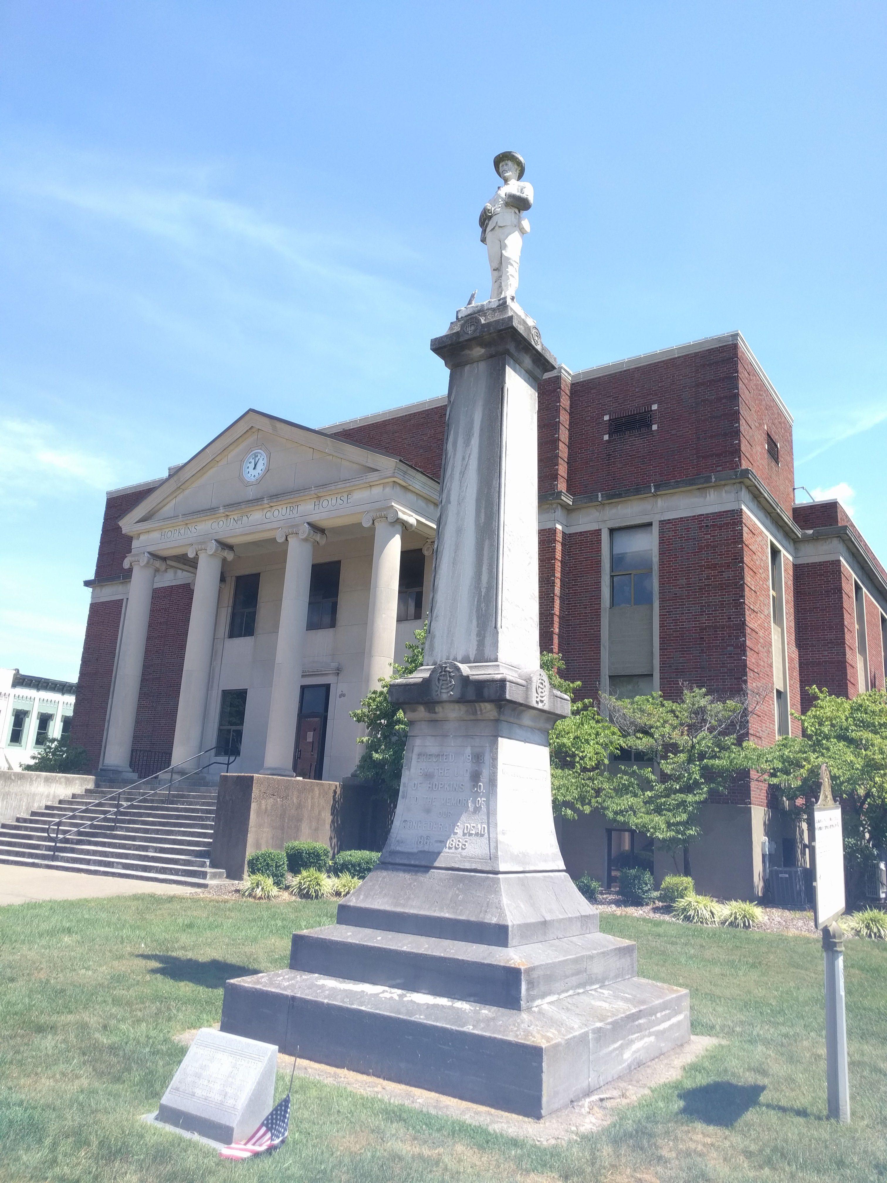 Looking East across Main Street on a hot afternoon.